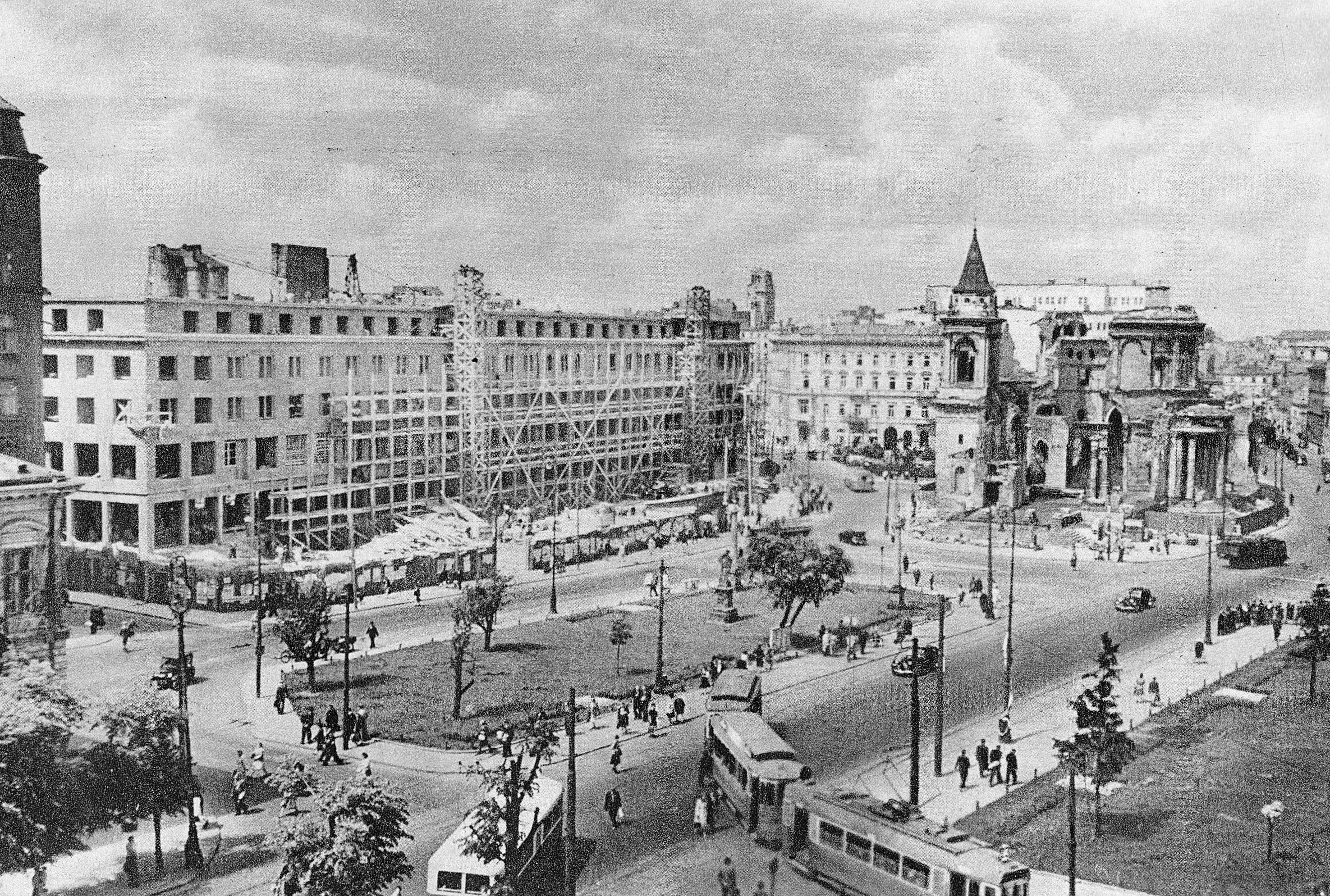 Three Crosses Square in Warsaw in 1948 or 1949